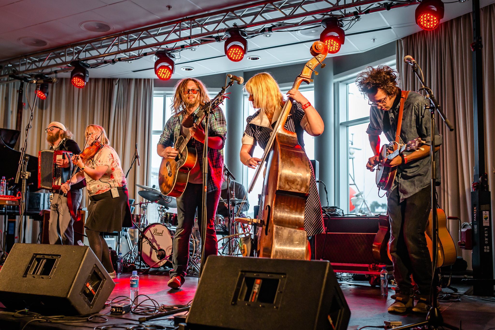 Norwegian band Lady Moscow performing at Norwegian music festival Canal Street, 2015.